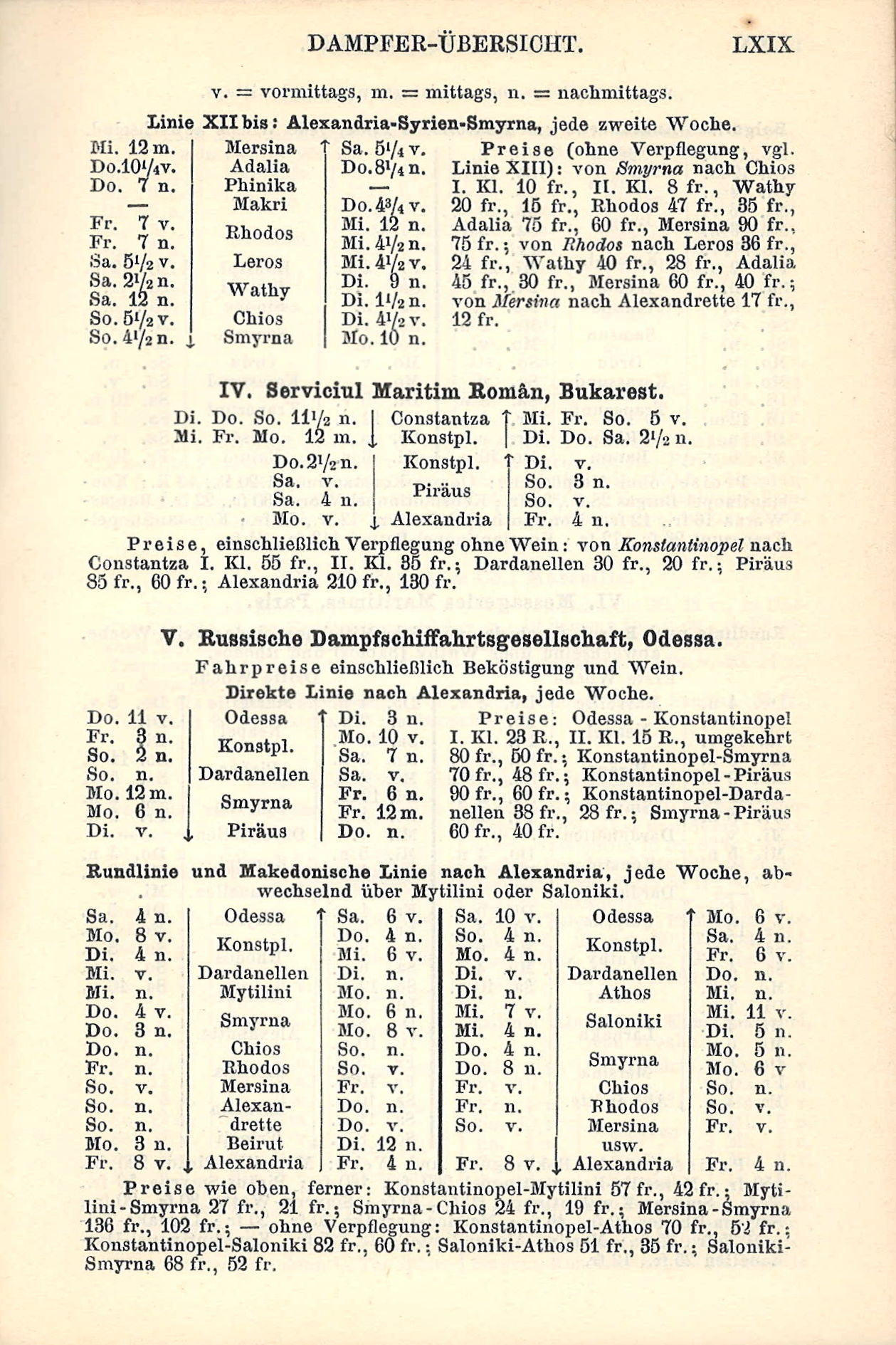 Timetable of the Russian ROPiT from 1912 (Baedeker: Rußland, 1912)